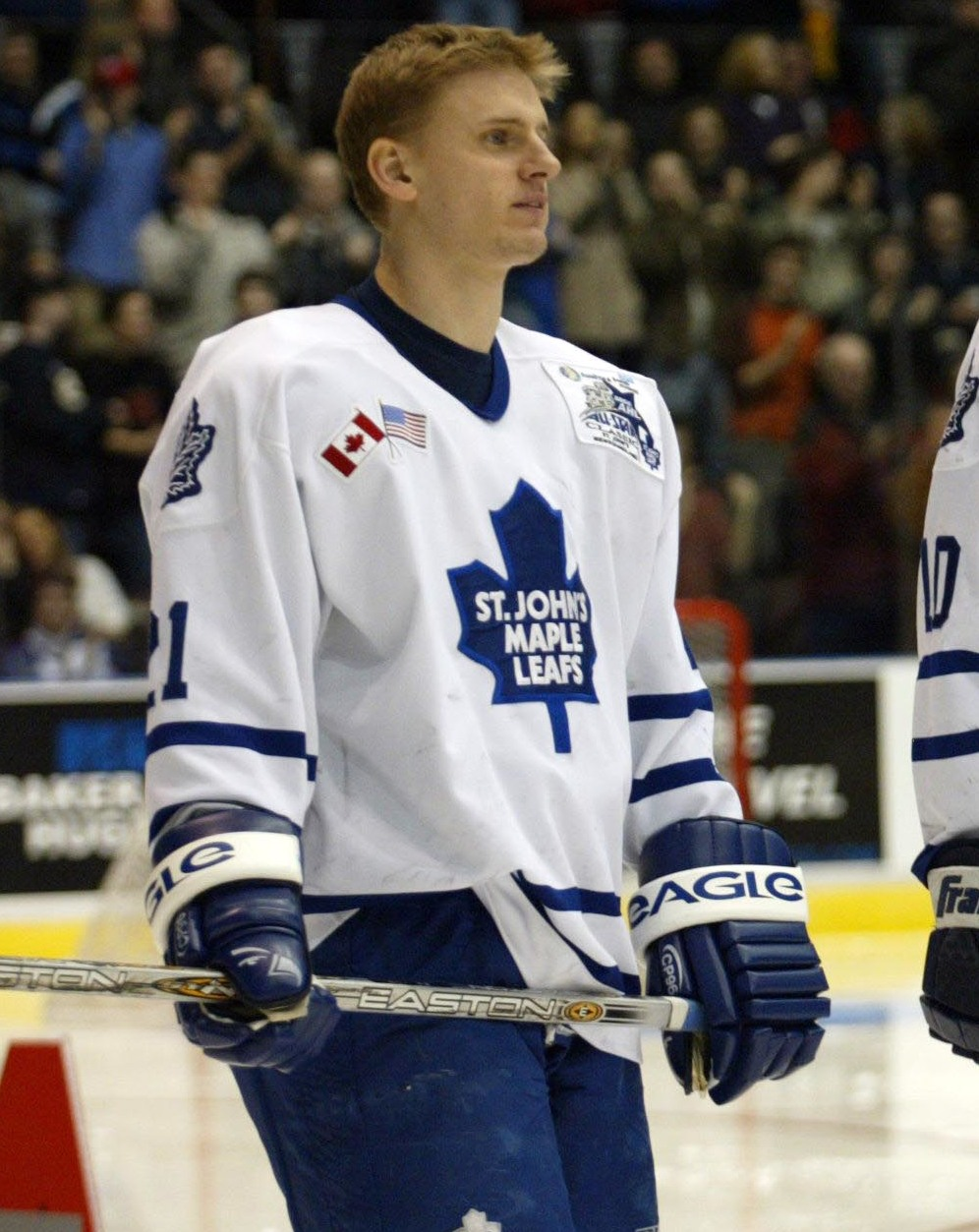 Photo: James Baker/AHL